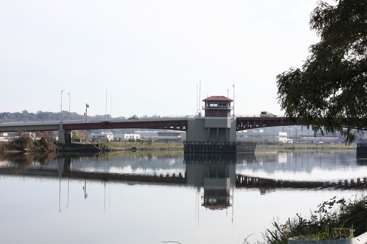 The South Park Bridge on the Duwamish River in Seattle. This bridge was built in 2012-14 and opened in June 2014, replacing a 1931 bridge of the same name at this location.